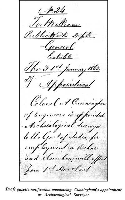 Draft gazette notice announcing Alexander Cunningham's appointment as Archaeological Surveyor of India.